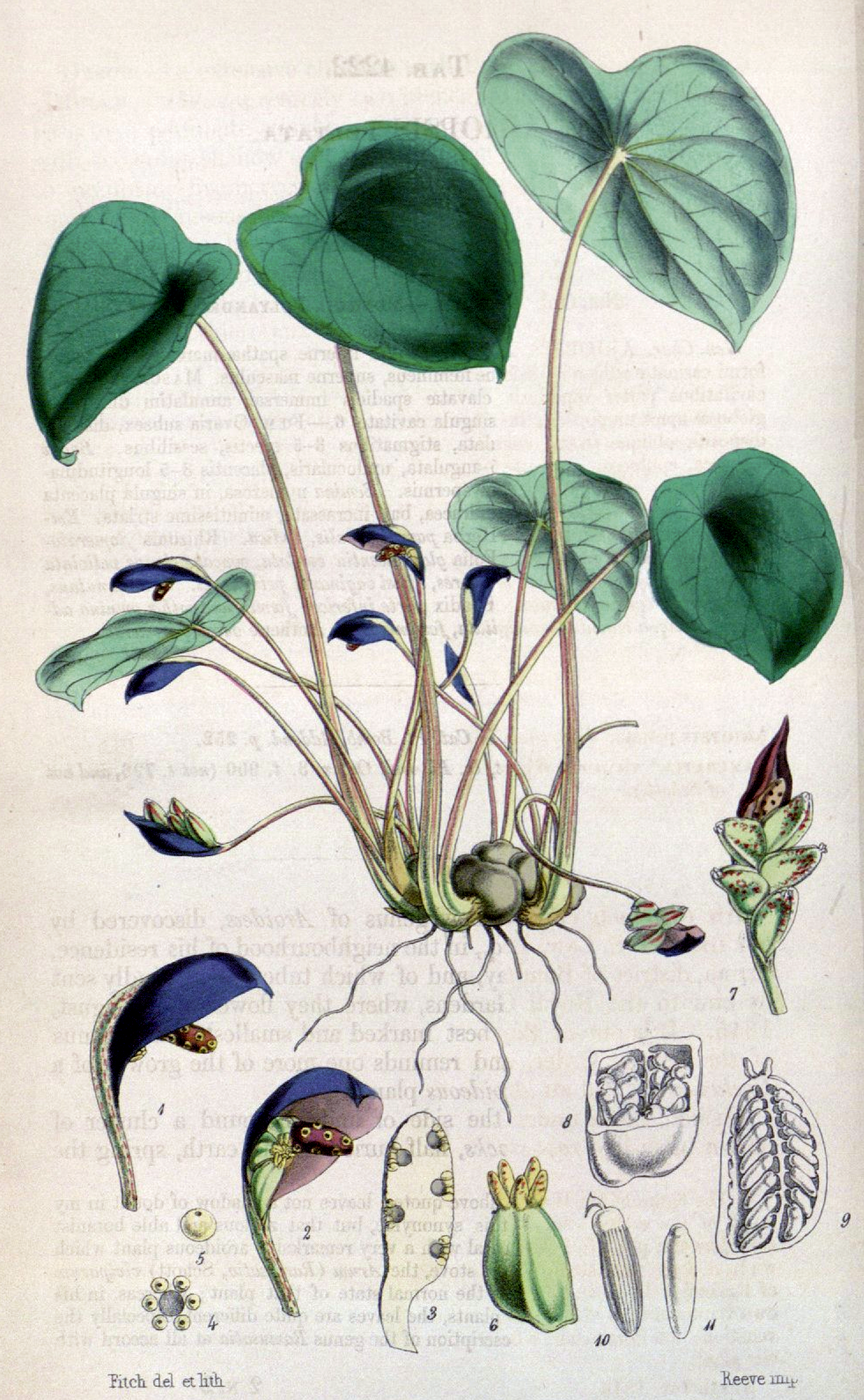 Ariopsis peltata botanical drawing